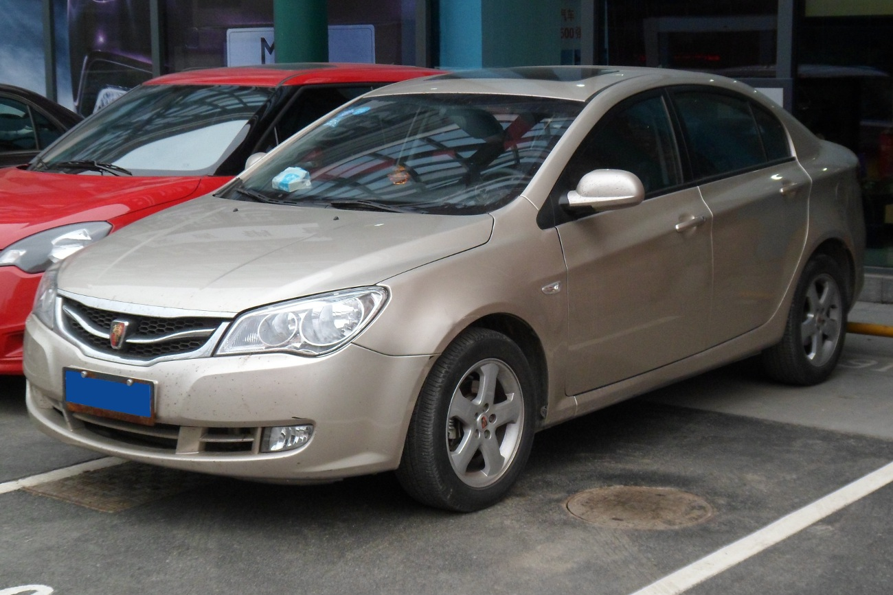 Roewe 350 photographed in Shanghai, China.